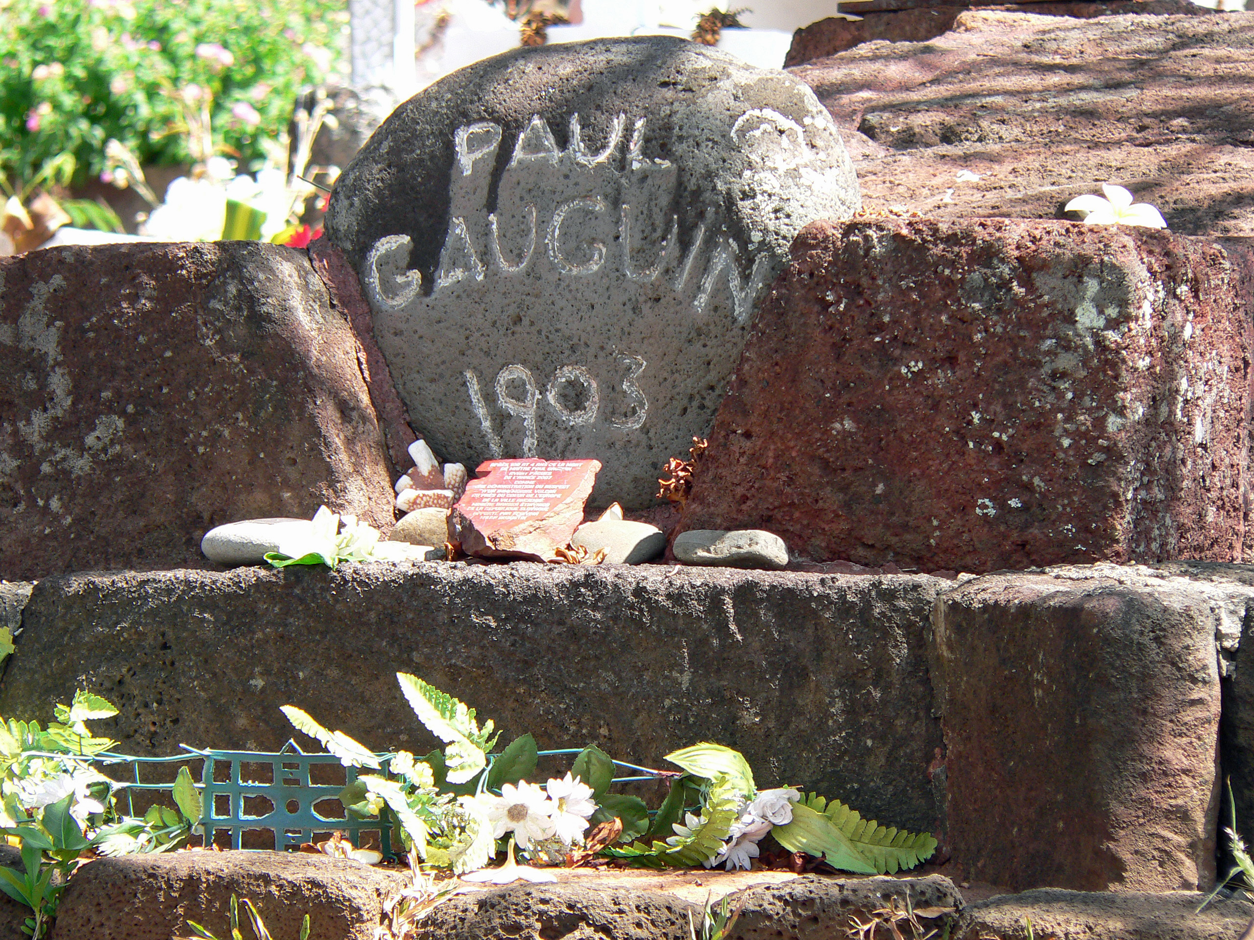 Paul Gauguin's grave on Hiva Oa